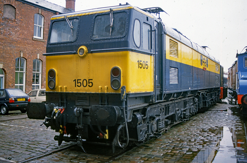 NS 1500 class: 1505 Ariadne Class BR class 77: E27001, at the Science and Industry Museum, Manchester. Scanned from a Fujichrome 35mm slide.